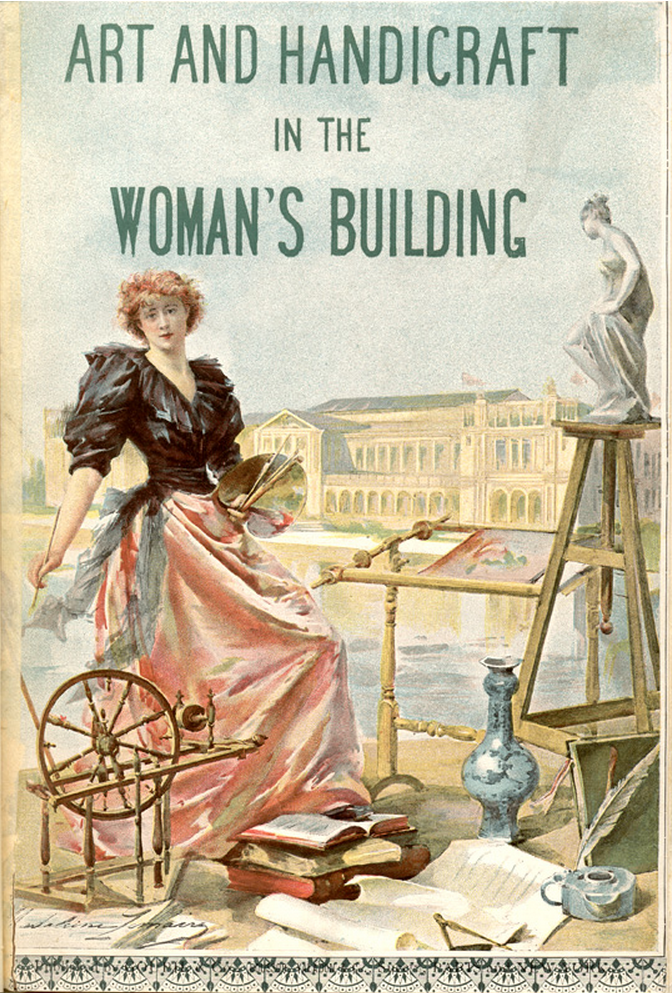 Lithographic poster for the Art & Handicraft in the Woman's Building, Chicago International Fair (1893).